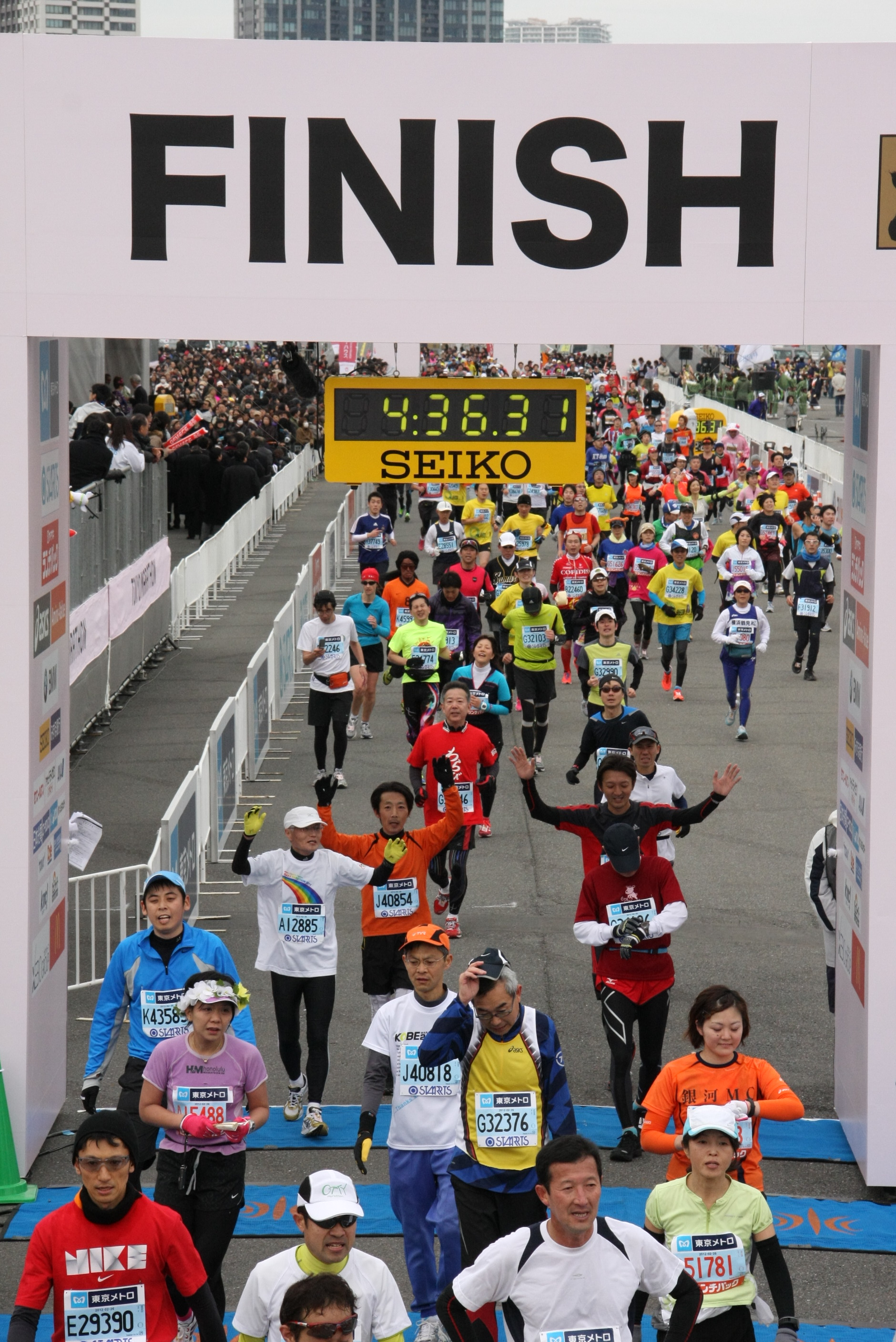 Fun runners finishing the 2012 Tokyo Marathon